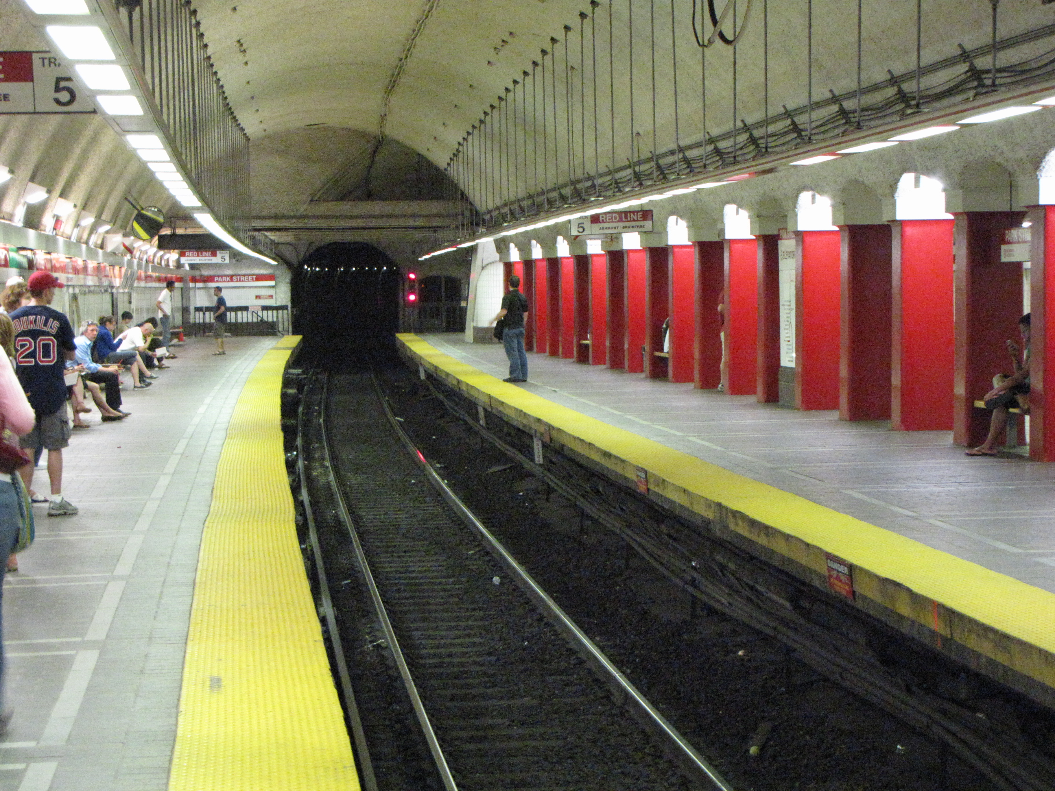 Red Line platform at Park Street station in Boston, Massachusetts.